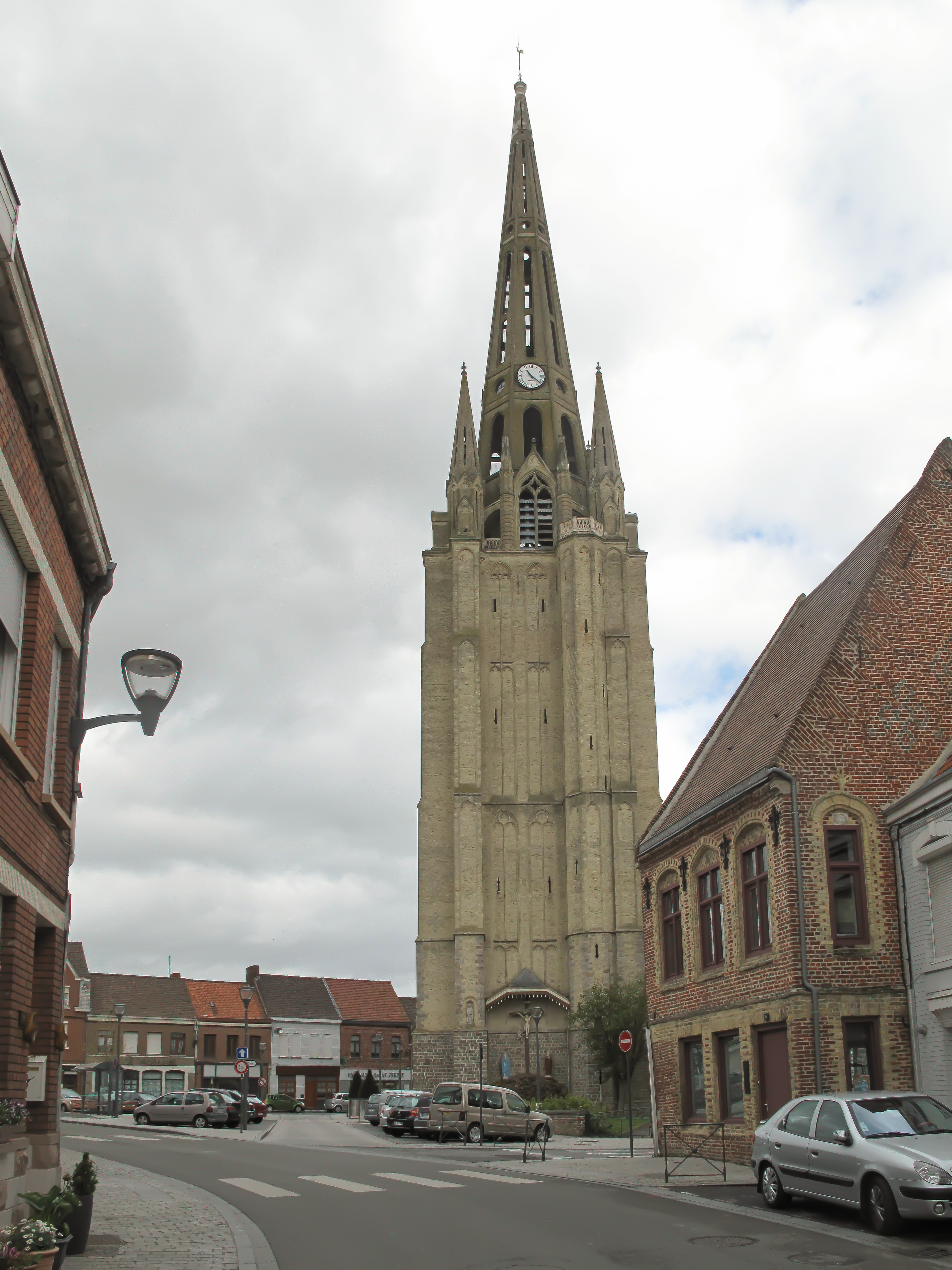 Steenvorde, church: église Saint Pierre